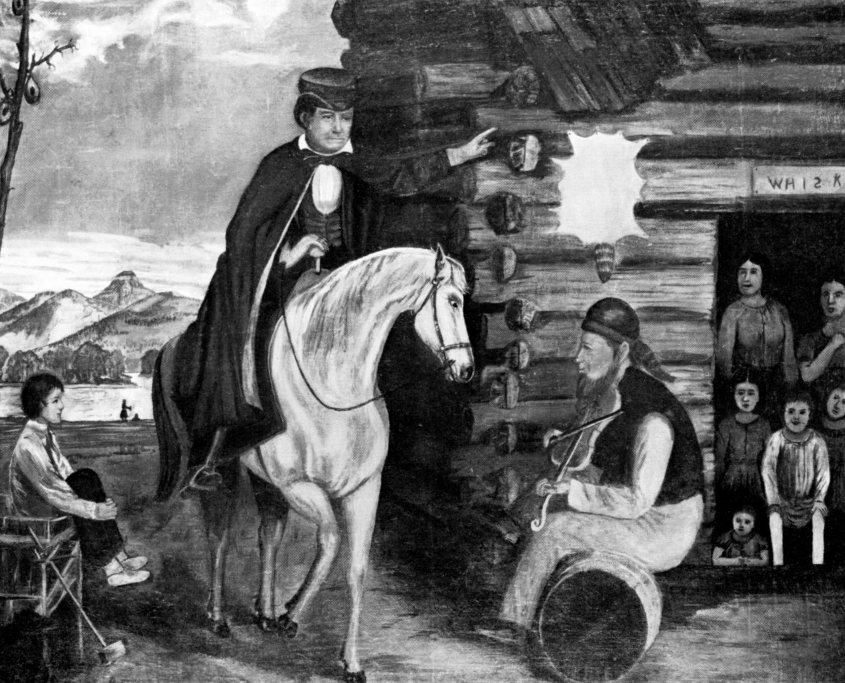 The Arkansas Traveler, painting by Edward Payson Washbourne (Washburn), c. 1855. According to several sources the original painting, poorly restorated and granted to the Arkansas History Commission by descendants of the Washbourne family in 1957. Several 19th century copies exist, as well as lithographed engravings (b/w and colored) by Leopold Grozelier (1859) and Currier and Ives (1870).